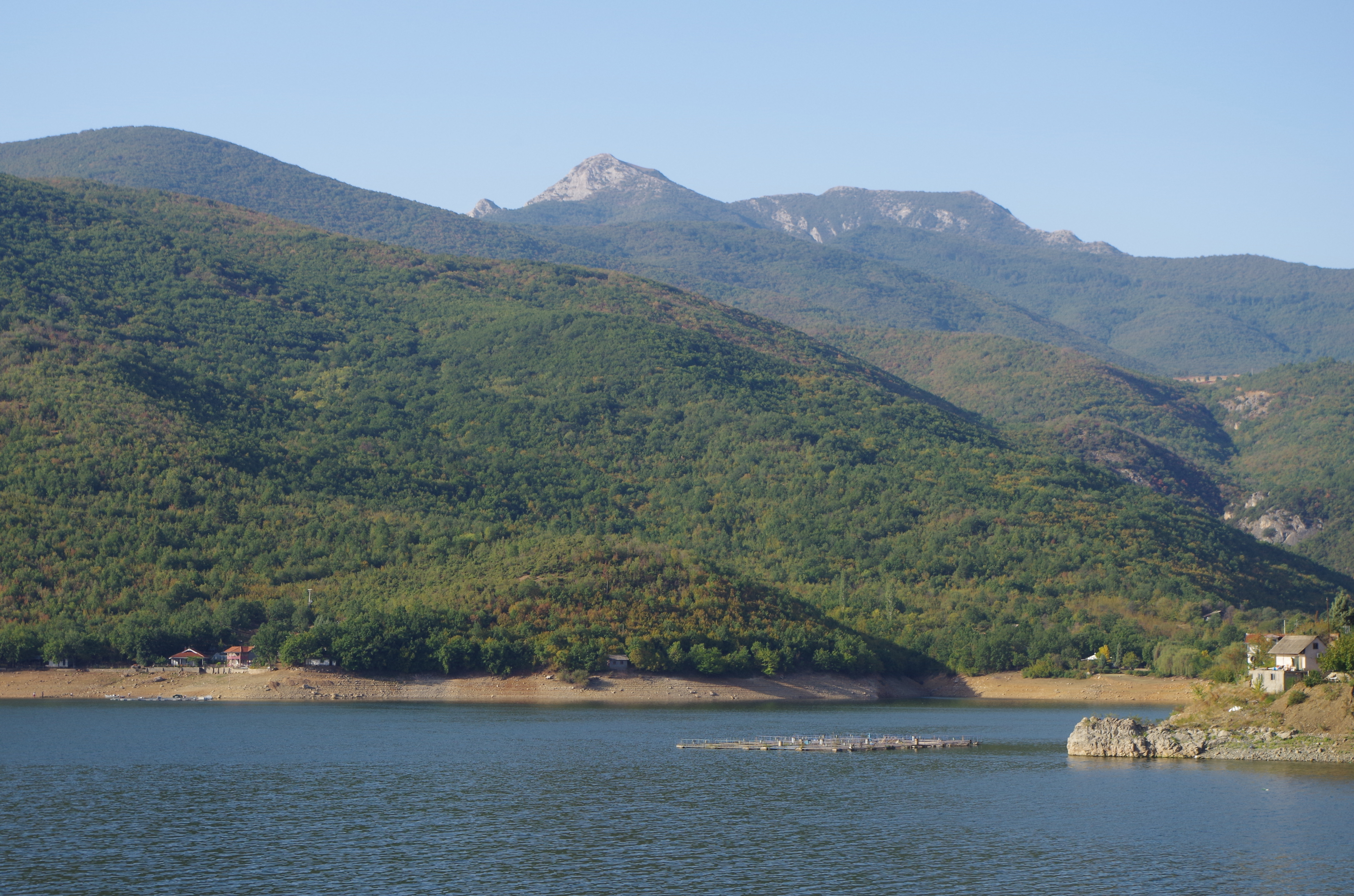 Lake Tikveš with the mountain Višešnica in the background